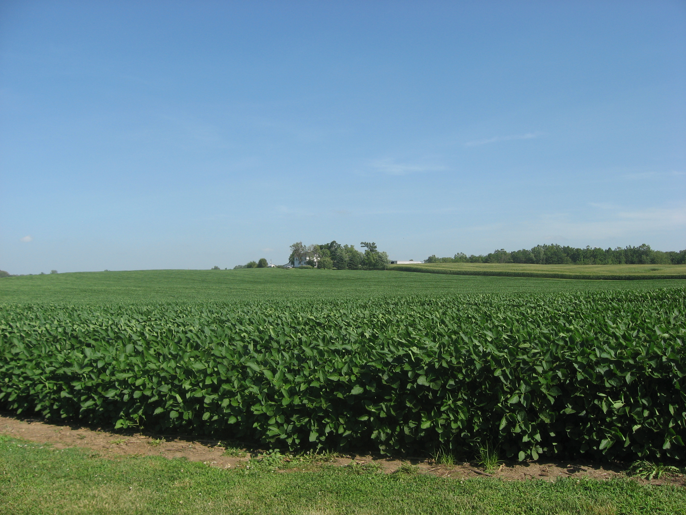 Soybean fields in Richland Township, Logan County, Ohio, United States. Picture taken looking southward from County Road 39 at the community of New Richland.